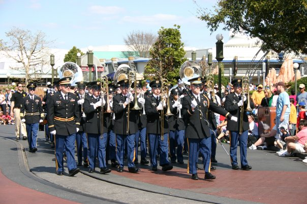 GEB in Disney